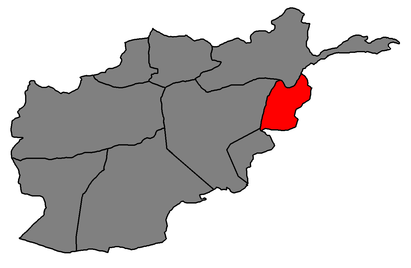 This map illustrates the Southern Province, Afghanistan, a former province of Afghanistan, in 1929.